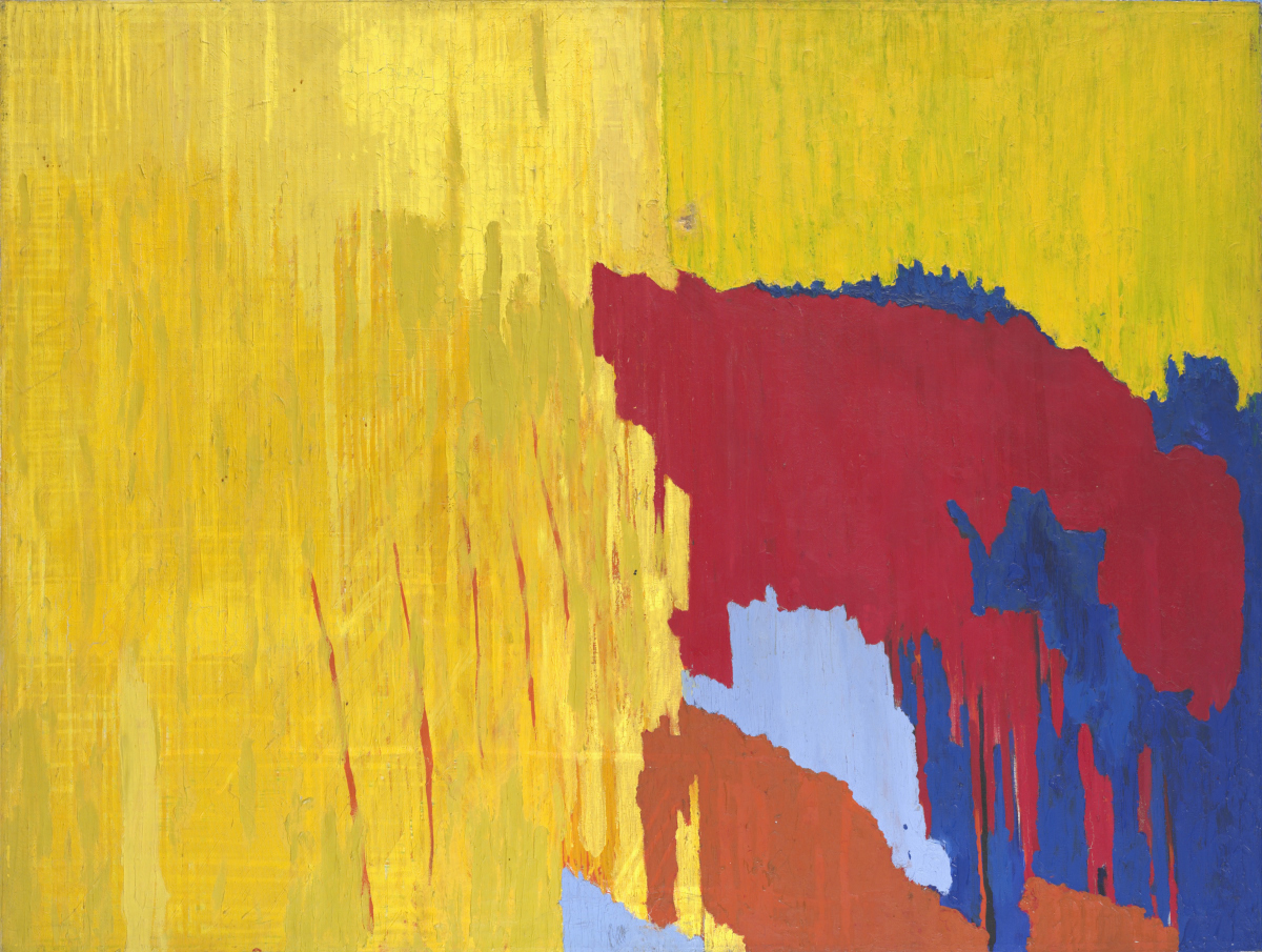 Bend knees and spine, oil on canvas, 150 x 200 cm (1976-78)